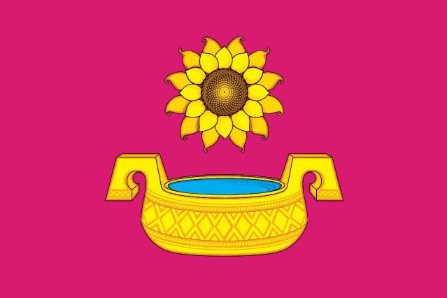 Flag of Novoplatnirovskoe rural settlement, Krasnodar Territory, Russia